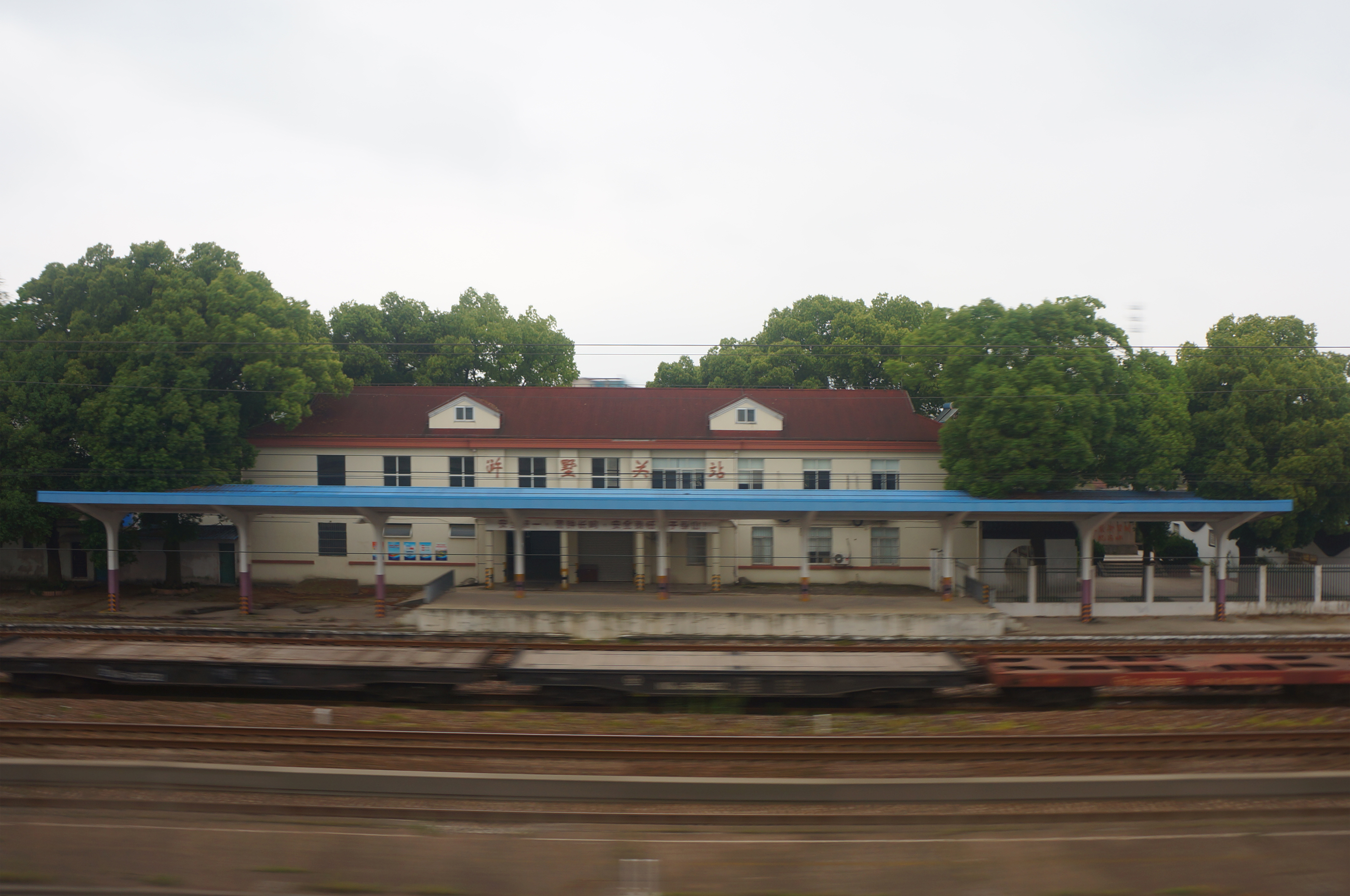 201705 Xushuguan Station